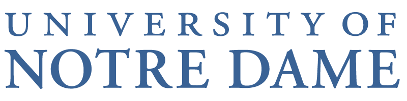 Created by User:Pgp688